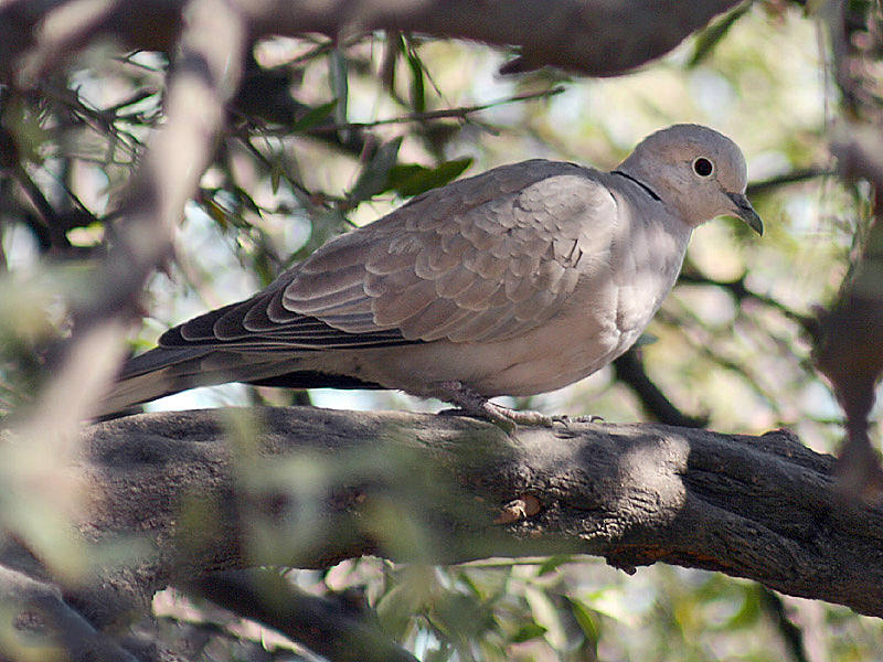 Eurasian Collared Dove Streptopelia decaocto at Hodal in Faridabad District of Haryana, India.